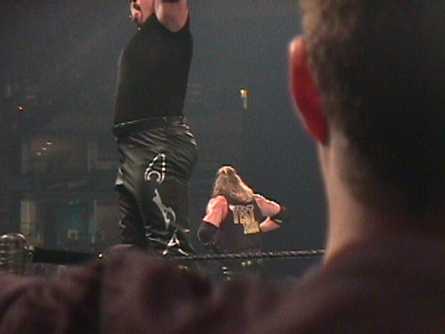 Test and Albert at the WWF King of the Ring at the Fleet Center in Boston, MA in 2000 - WWE